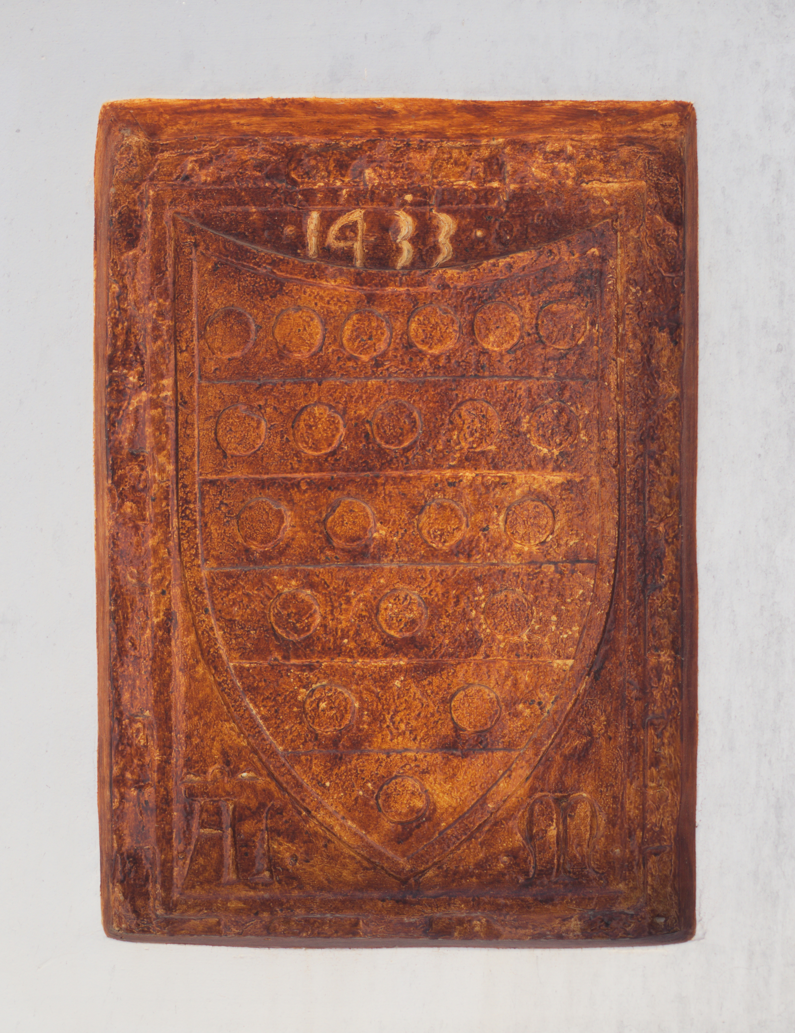 Coats of arms of the House of Michiel at the castle of Serifos, built in 1433.